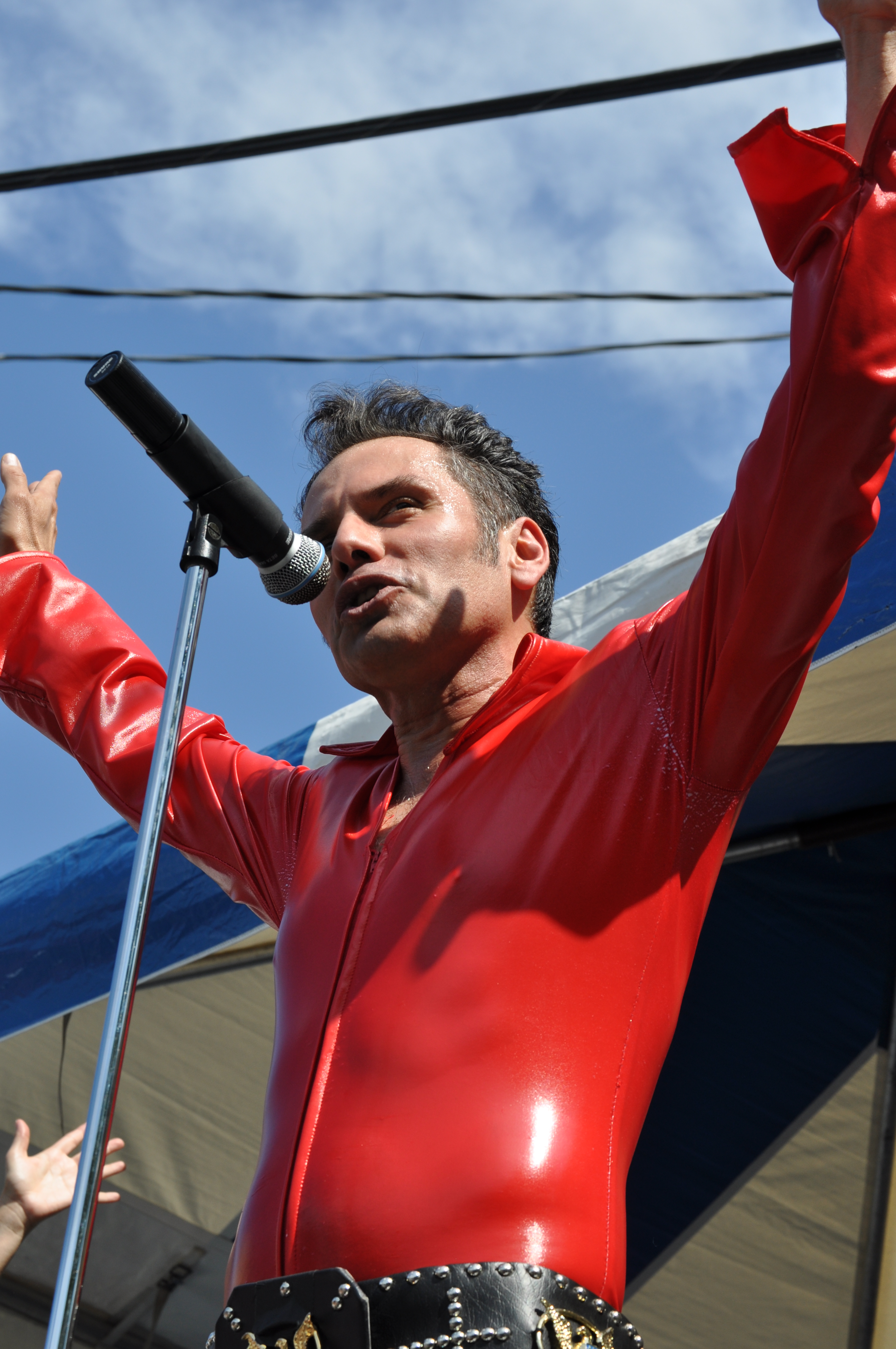 El Vez performing at the Ballard Seafood Festival, Ballard, Seattle, Washington.